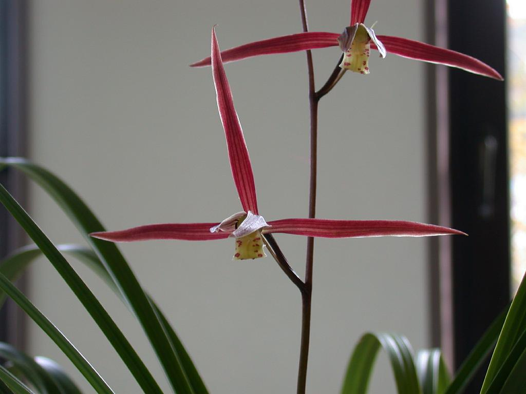 Cymbidium kanran (Orchidaceae) Japanese name:Knran 光貴(kouki) Date;2007,11,17;Tanabe city, Wakayama prefecture, Japan Author;Keisotyo